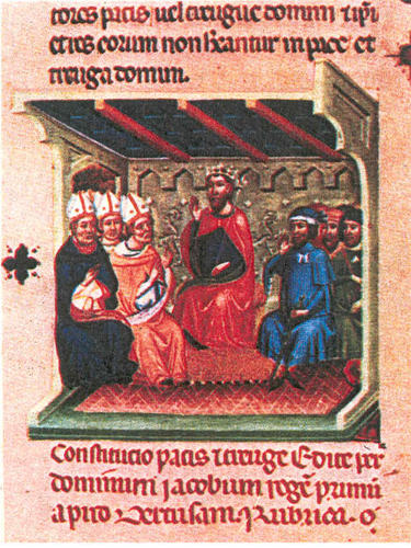 Jaume el Conqueridor